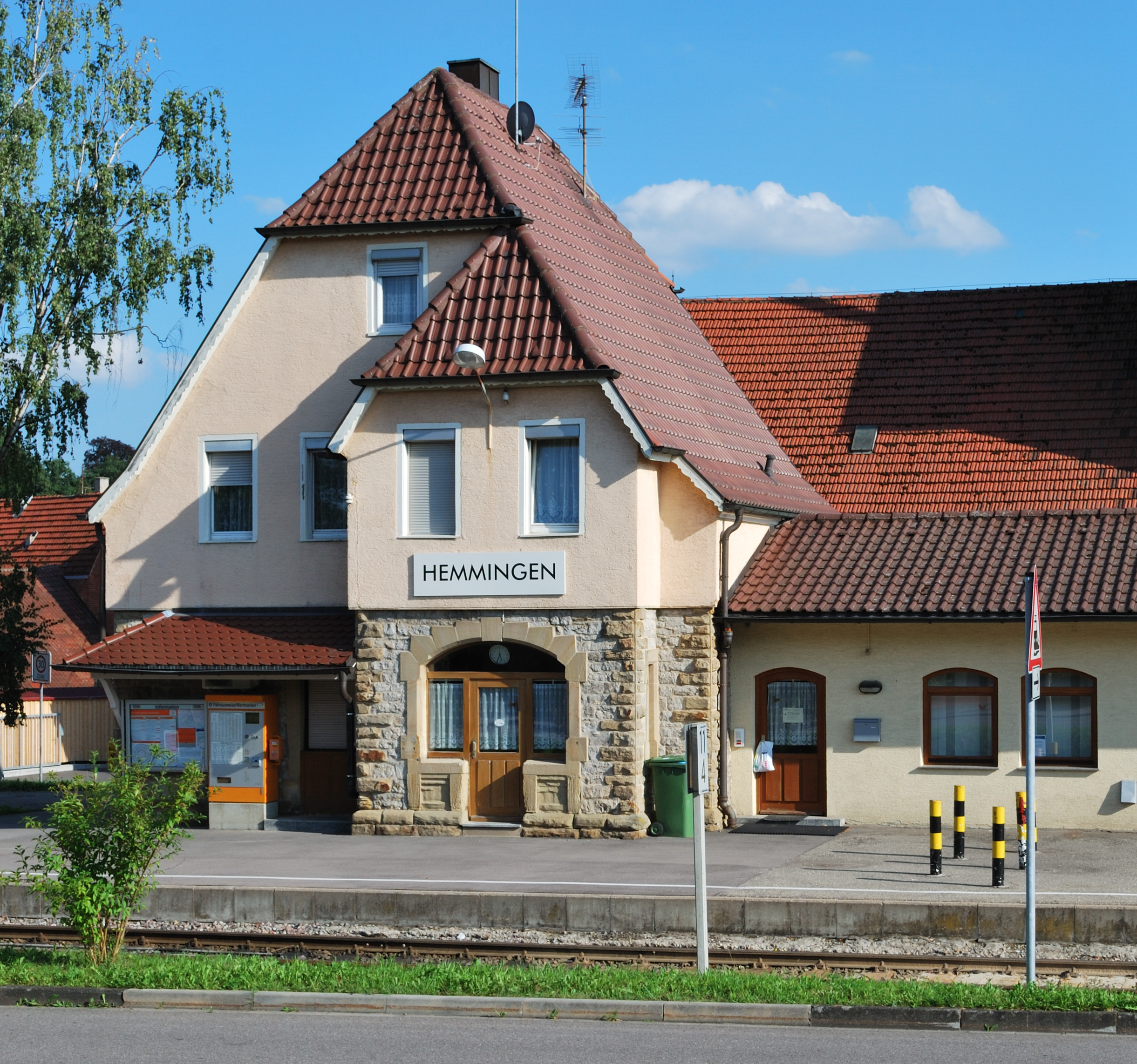 The railway building in Hemmingen in Southern Germany.